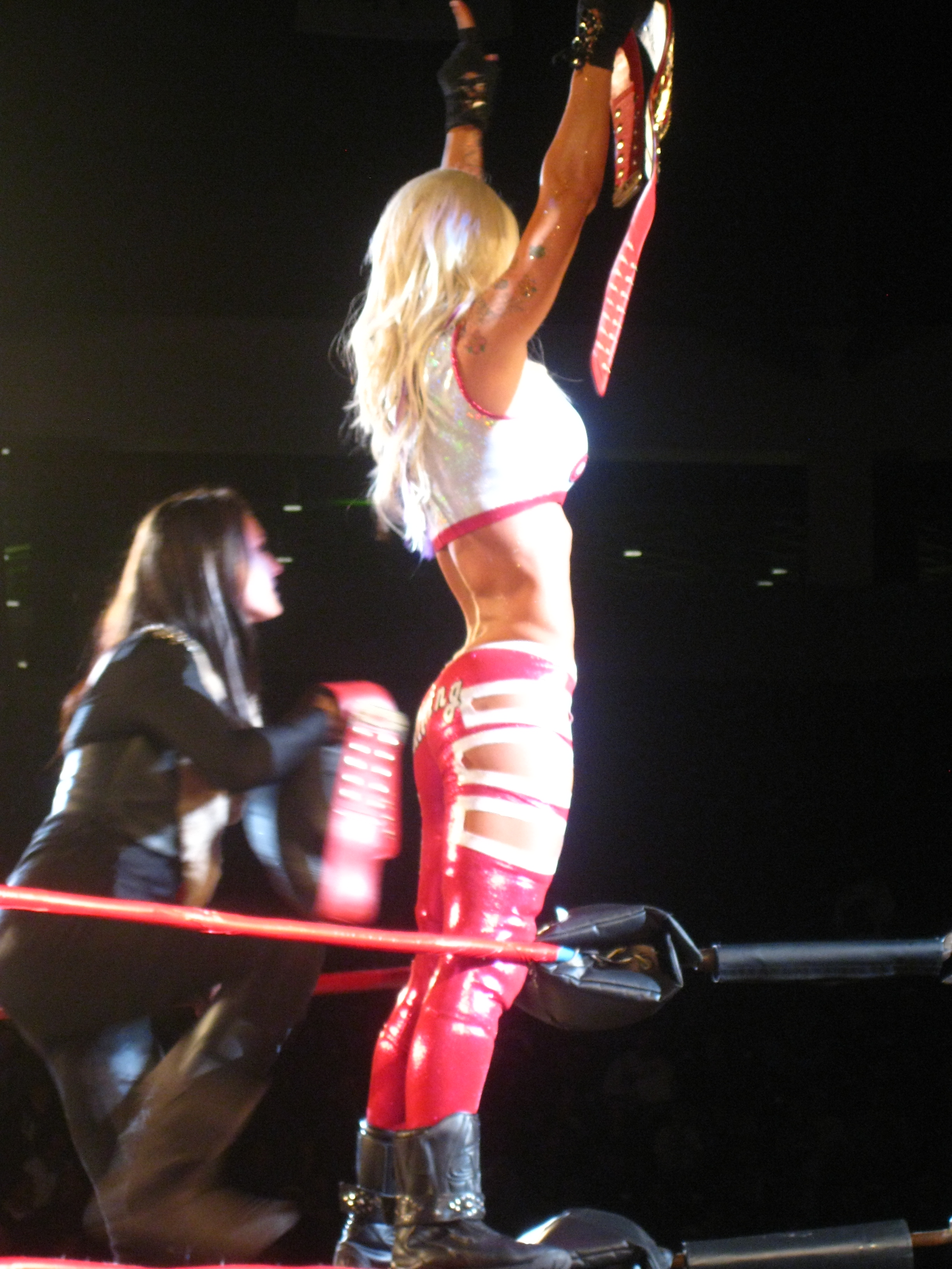 A TNA Live! Even at the ShoWare Center in Kent, WA. No PRO cameras were allowed so I had to put my Canon PowerShot SD1100 IS to work!